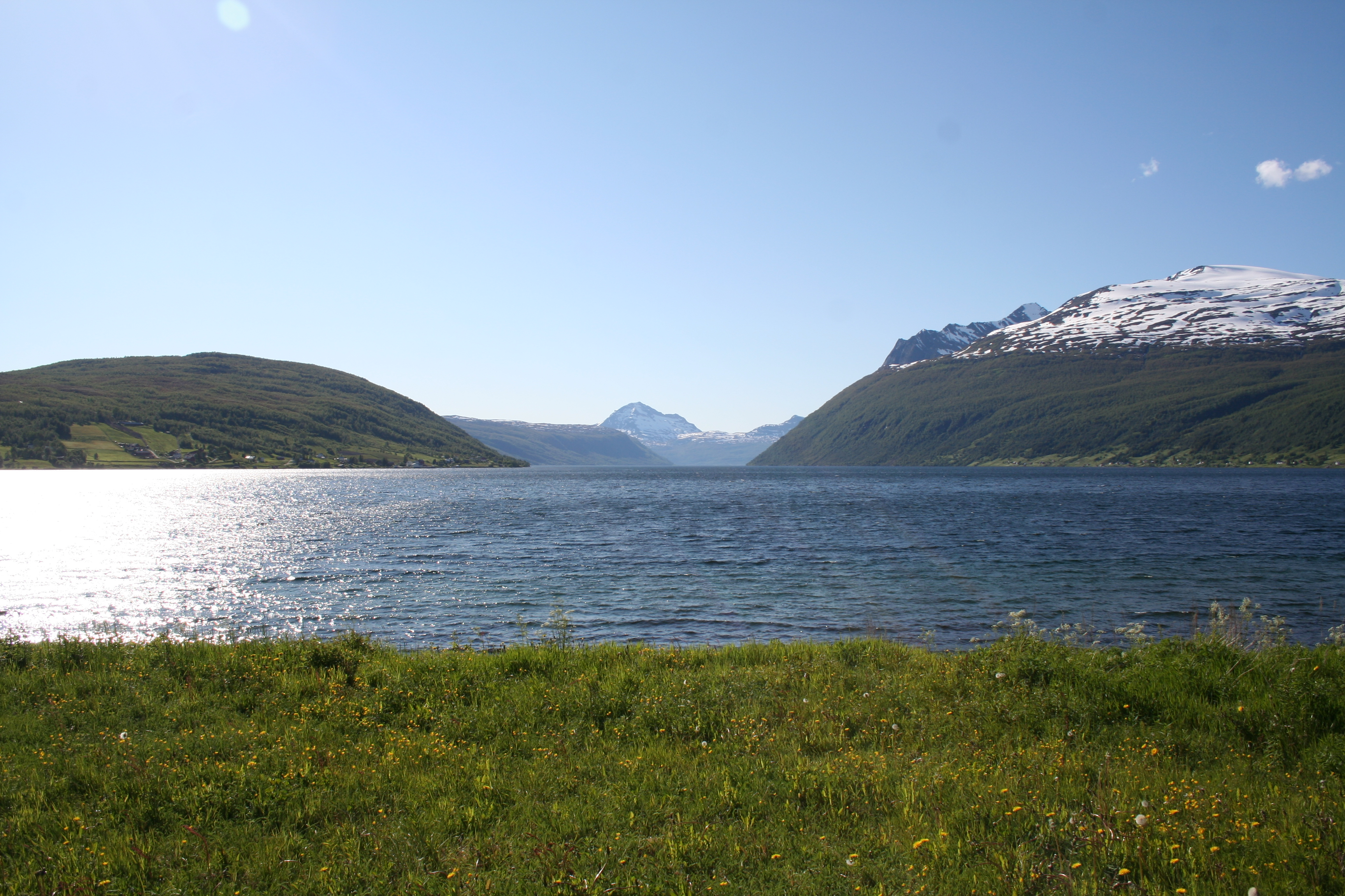 The picture shows Lavangsfjorden from Soløy in Lavangen. The fjord continues to the left to Tennevoll. The mountain straight ahead is Snøtinden on Andørja. To the right Skavneskollen and behind it Reitetindan